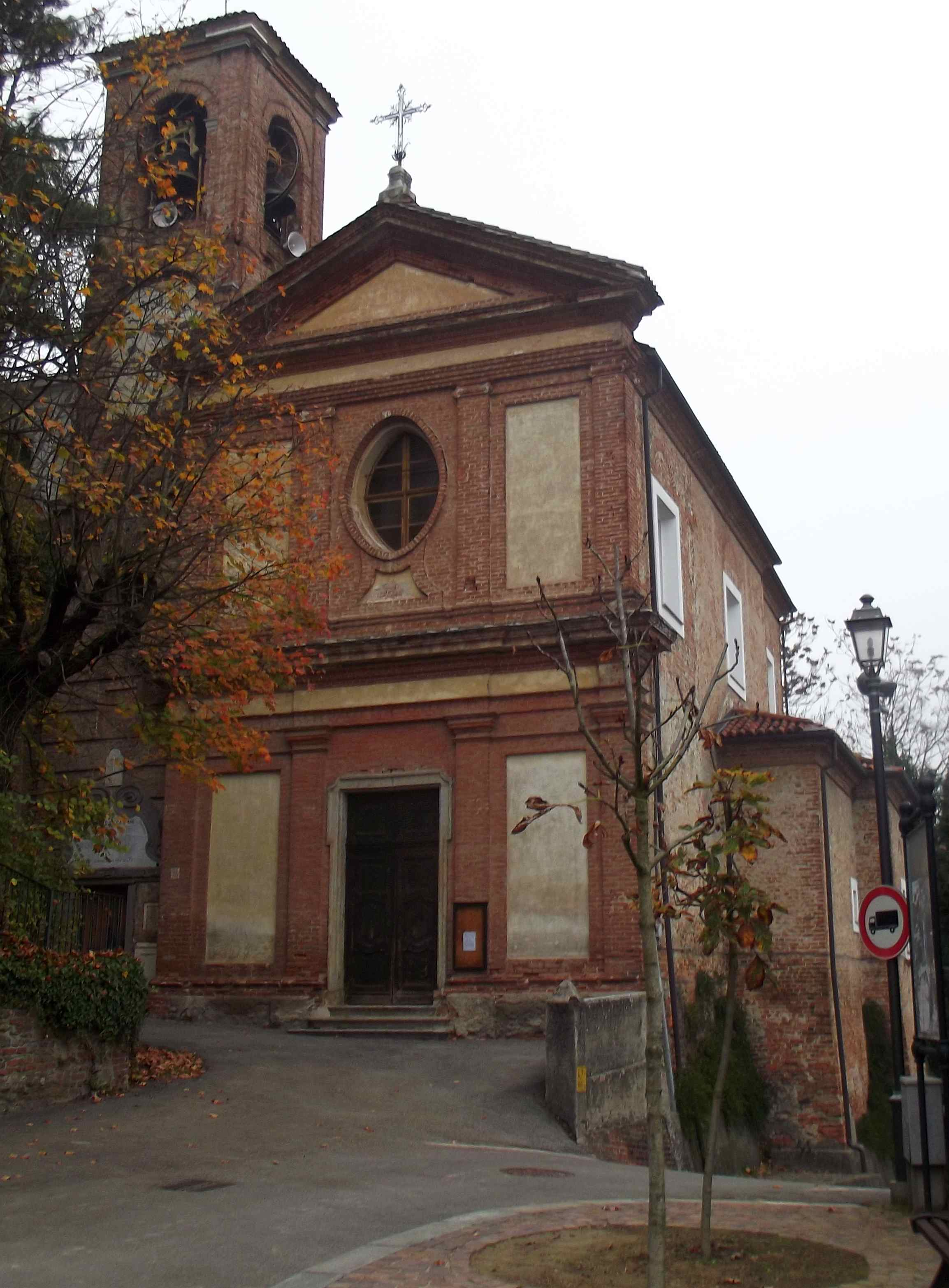 Bussolino (Gassino, TO, Italy): Saint Andrew and Nicolaus church